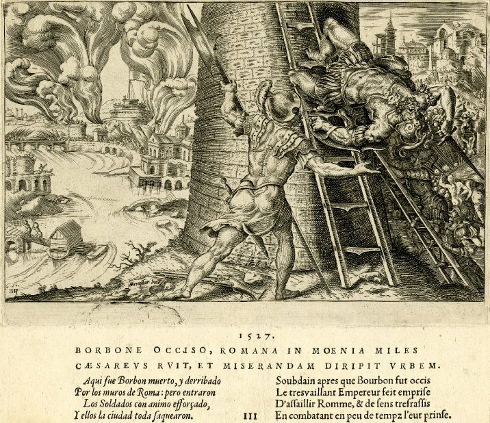 Sack of Rome. May 6, 1527. after Martin van Heemskerck (1555).